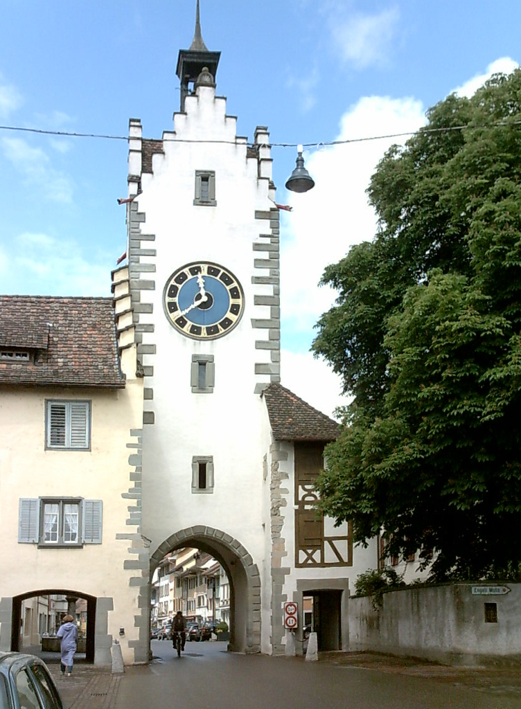 The Siegelturm (seal tower) in Diessenhofen, Germany